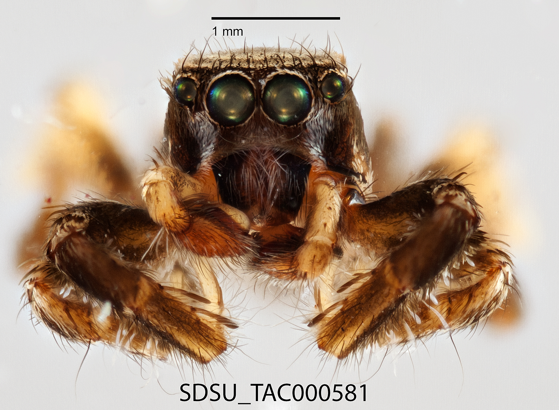 Habronattus californicus (Banks, 1904); PRESERVED_SPECIMEN; MALE; ADULT; 21/03/1999 00:00; Identified by: M Hedin